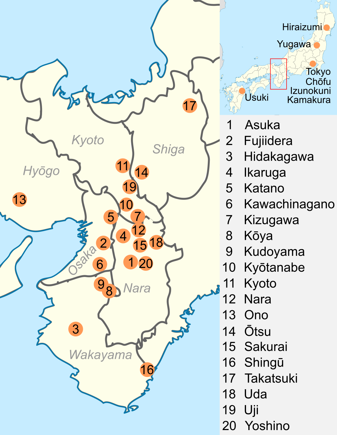 Map showing the location of National Treasures of Japan in the category sculptures.